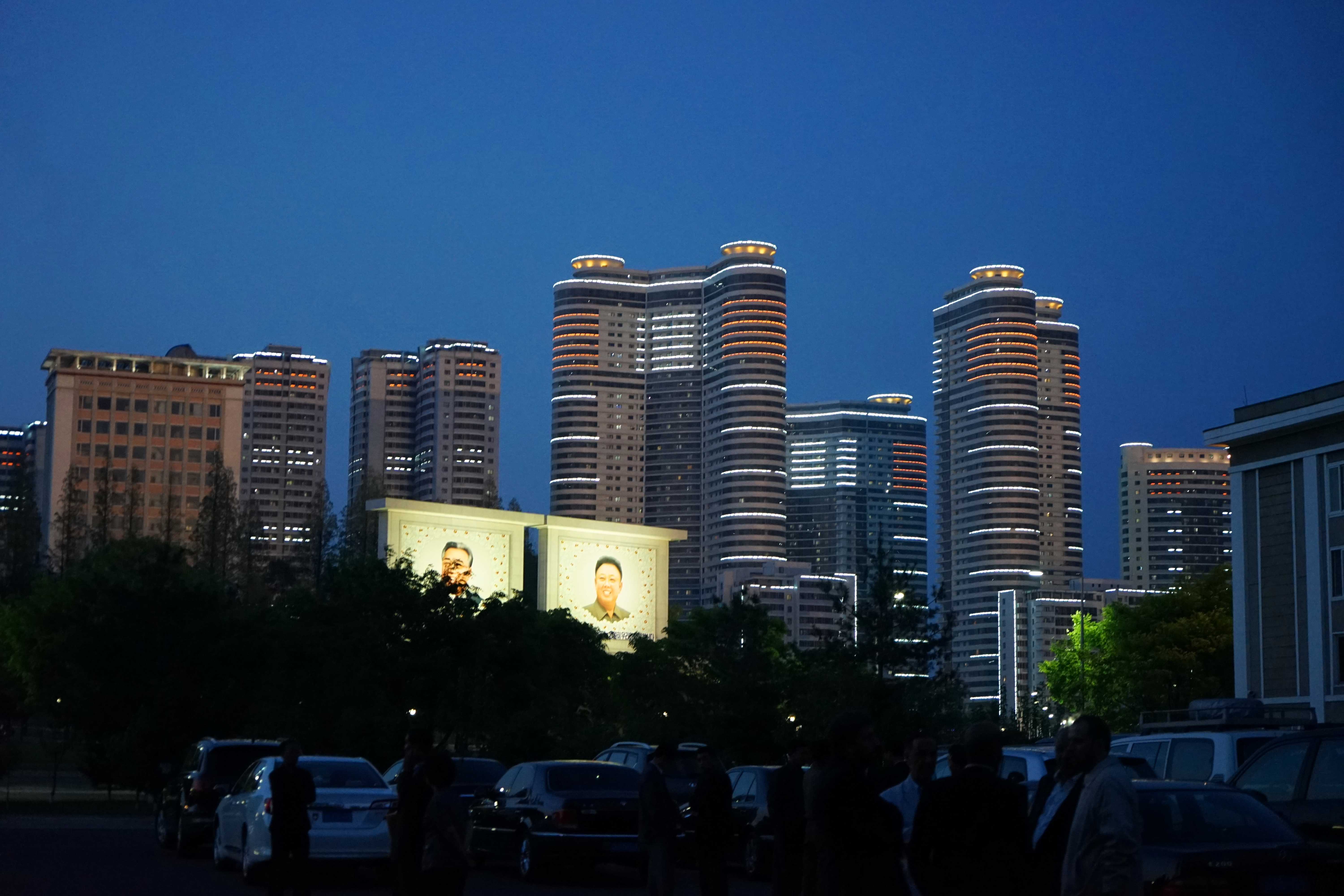 Night view of Pyongyang, North Korea